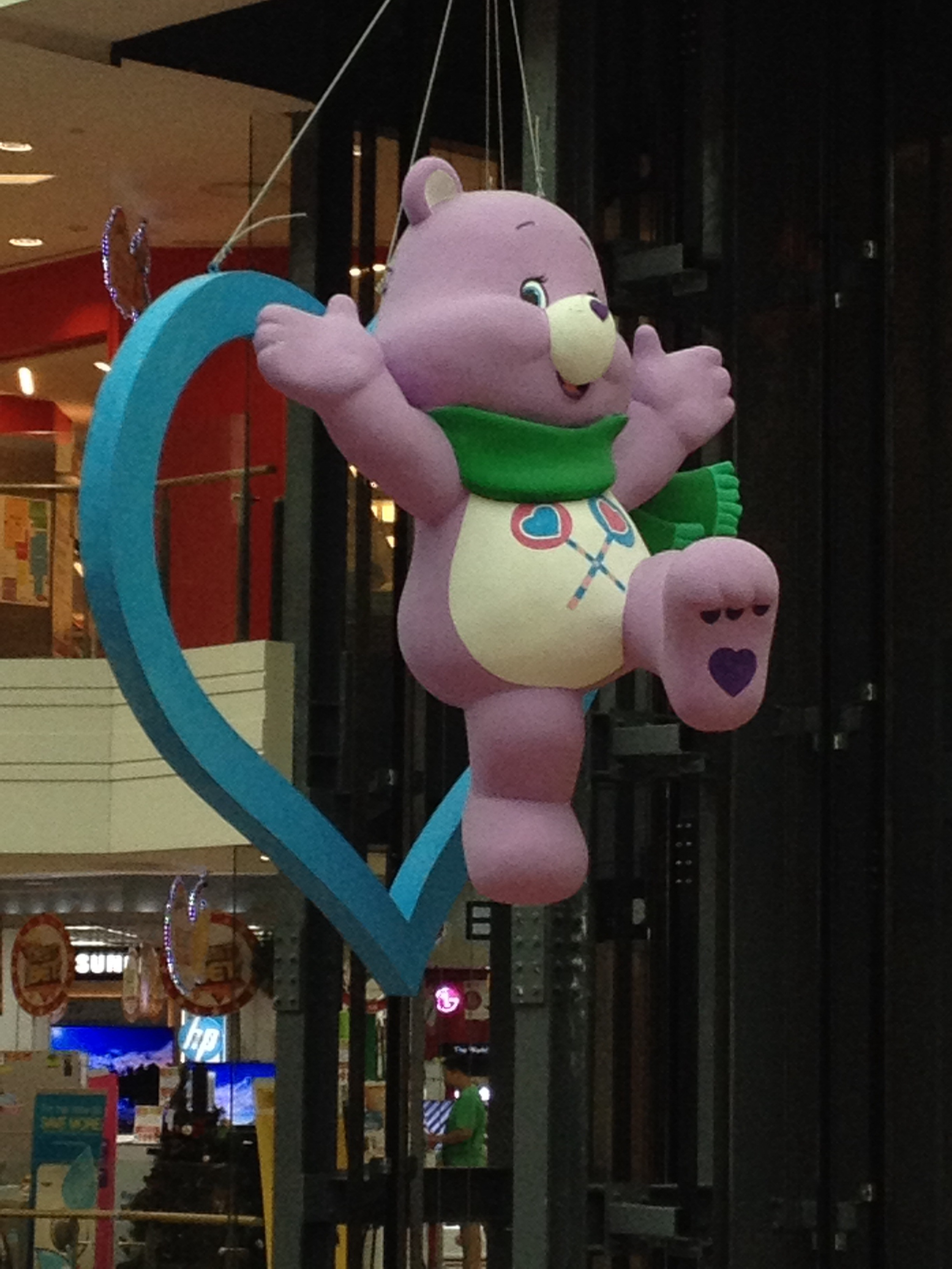 Share Bear from Care Bear series, as part of the Christmas decoration in Junction 8, Singapore in Dec 2013.